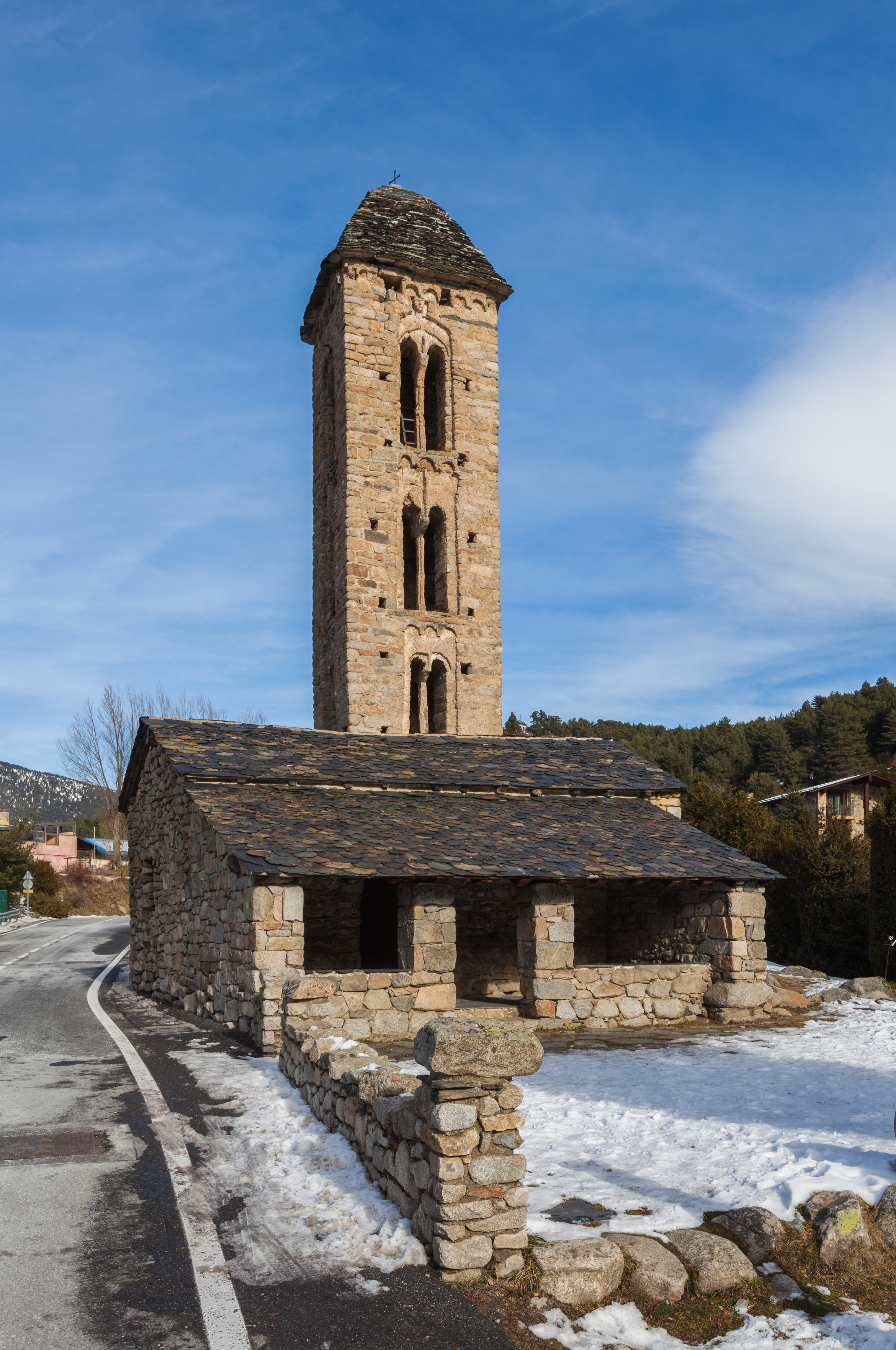 The St Michael church of Engolasters, located in Engolasters, Andorra, is a Romanesque church from the end of the 11th or beginning of the 12th century. The church, one of the most popular in Andorra, is part of its Cultural Heritage and is characterized by a disproportionately high bell tower.